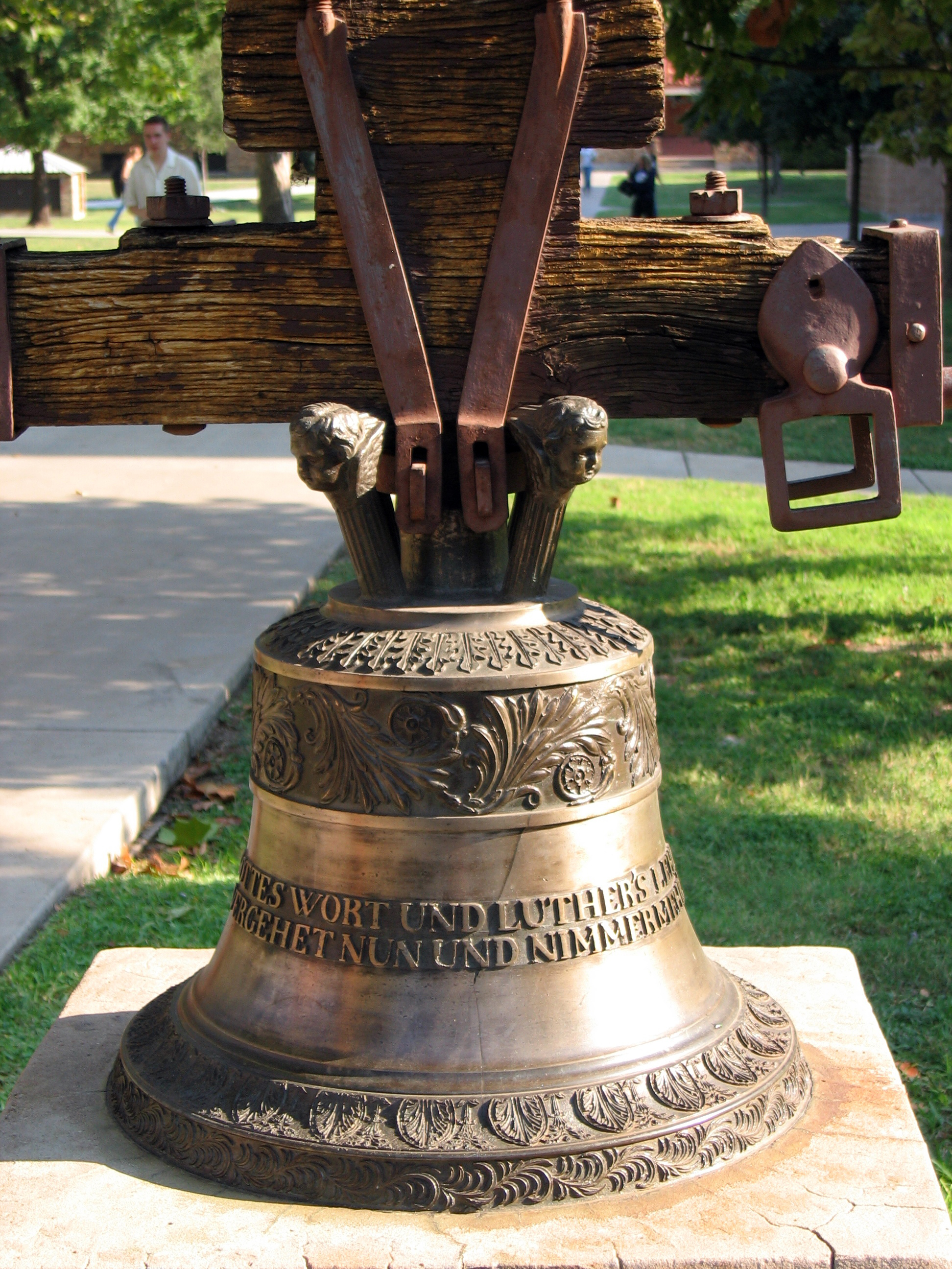 The "Texas Wendish Bell" that used to sit in front of the chapel on Concordia's former campus